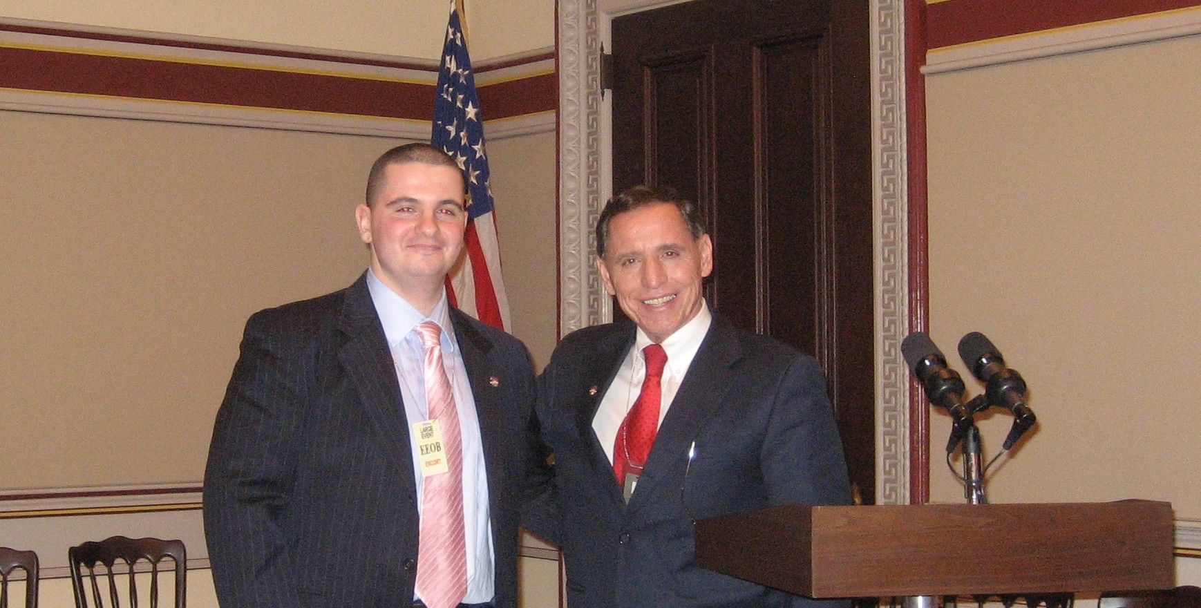 Henry Lozano at a White House event with Jay Goldman, recipient of The President’s “Call to Service Award” on International Volunteer Day.